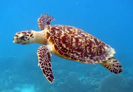 The name comes from the beak like mouth.